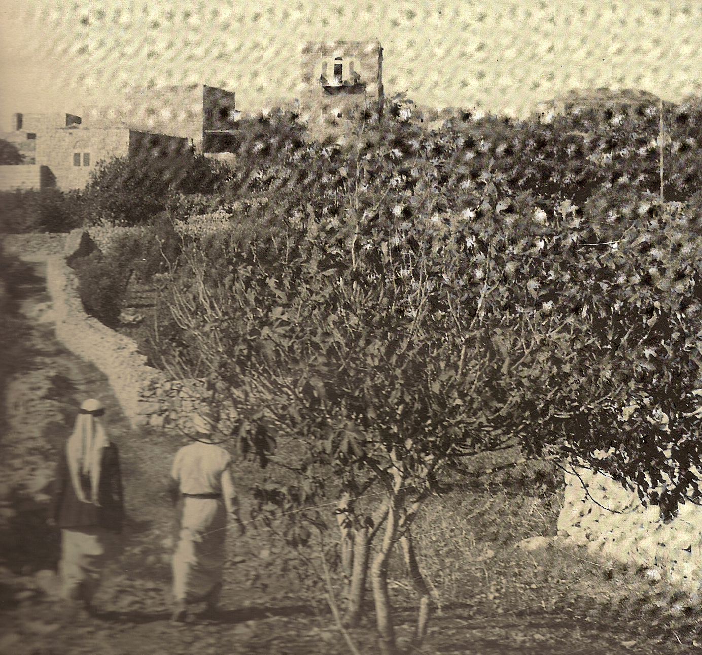 Al Qubeibeh during British Mandate